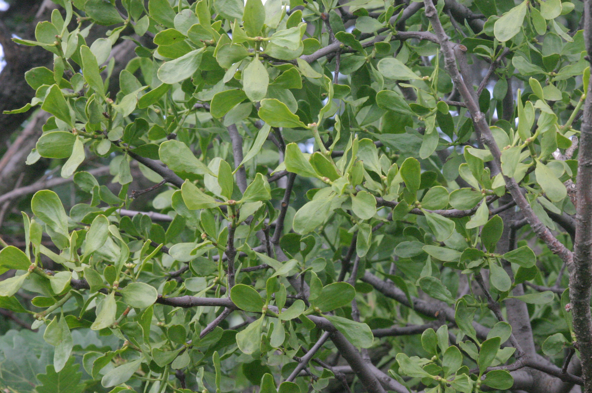 Loranthus europaeus